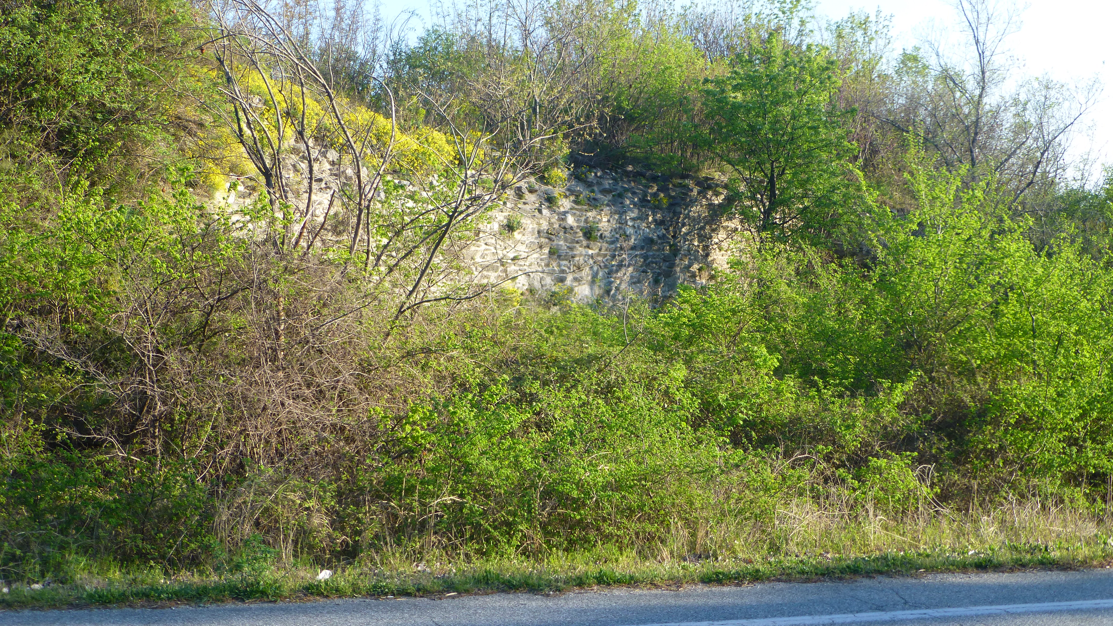 Ancient Topiros, Nestos, Greece